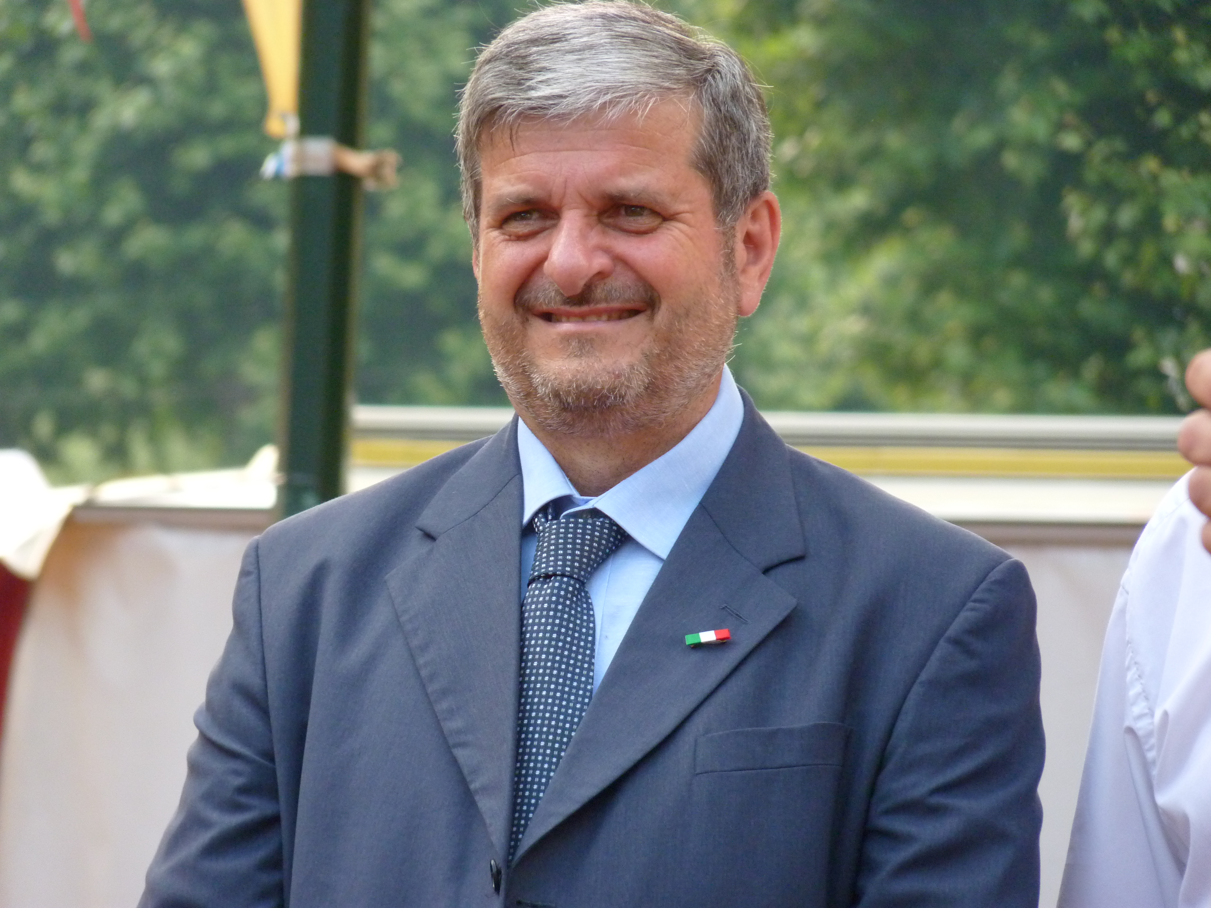 Paolo Zoffoli, mayor of Forlimpopoli, in 2011.